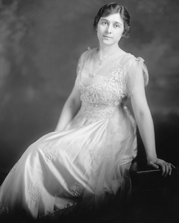 Dorothy Brower Barkley, first wife of Vice-President Alben Barkley